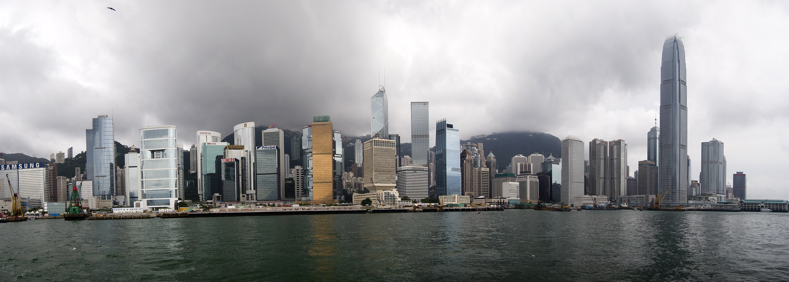 Self-explanatory. [=